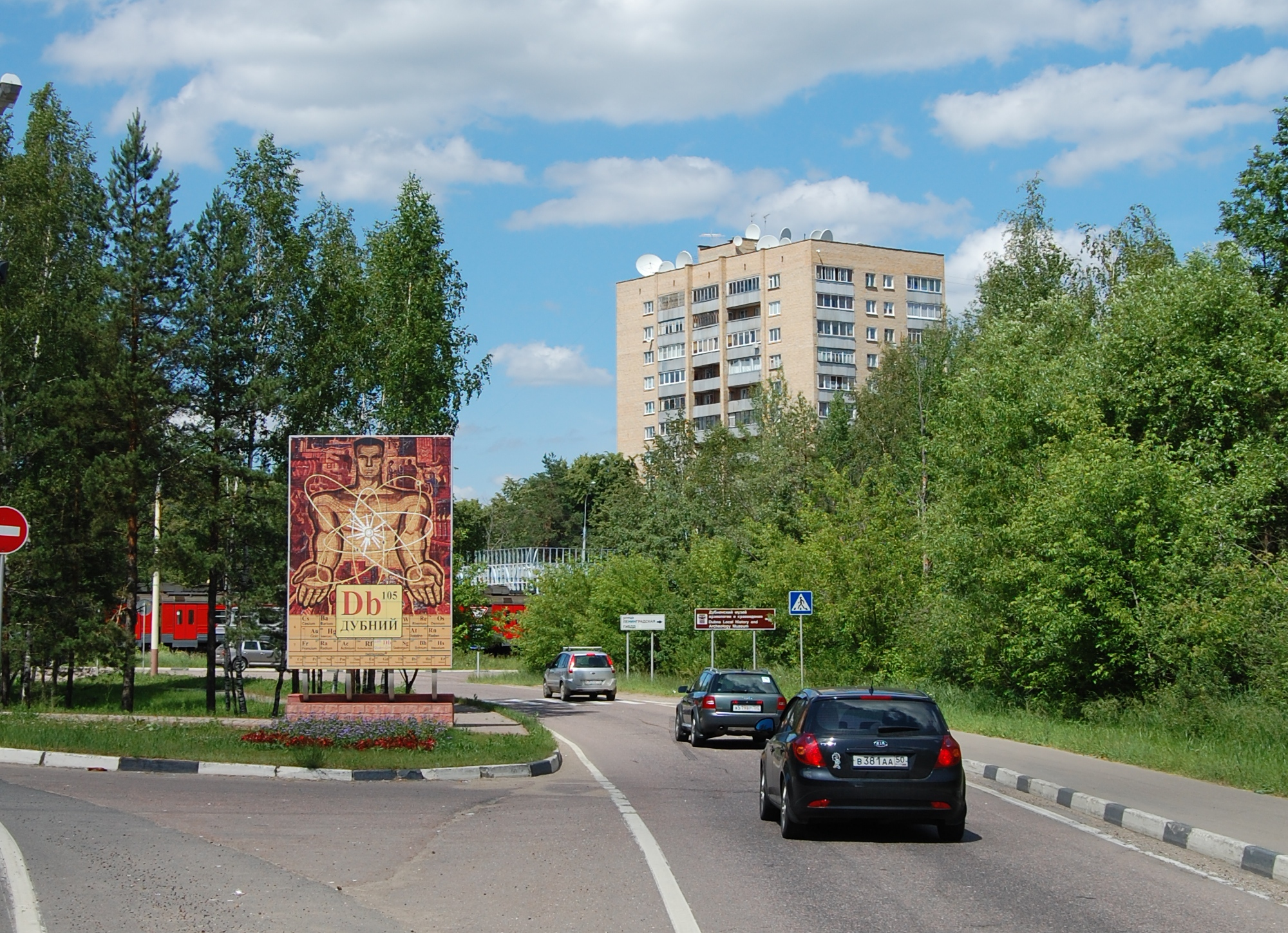 Stele in honor of the element Dubnium (the photocopy of the original mosaic) in Dubna, Moscow oblast